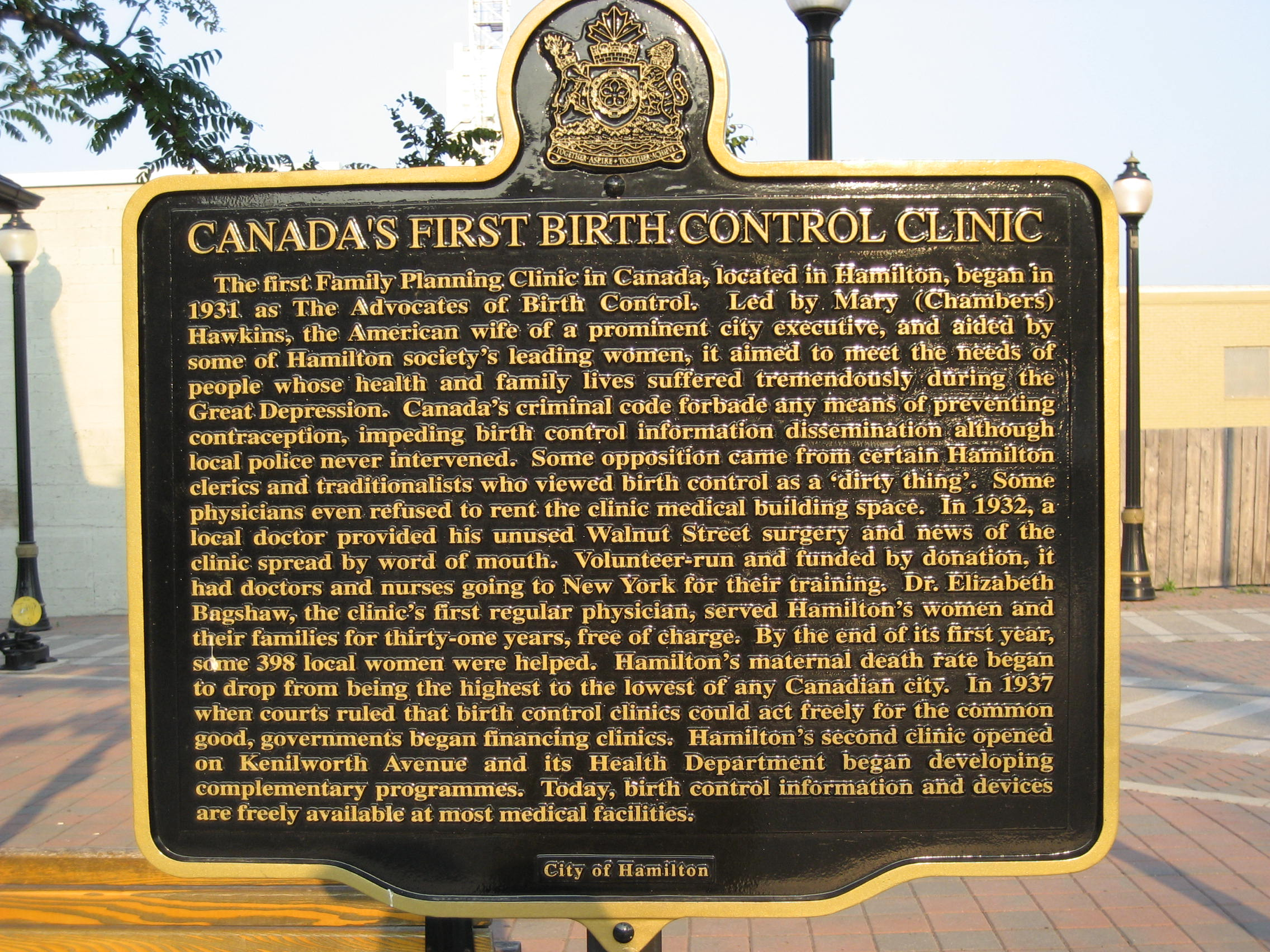 Canada's First Birth Control Clinic, plaque at Ferguson Station, downtown Hamilton, Ontario